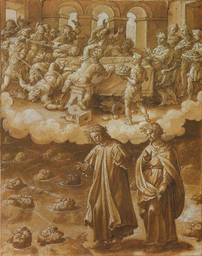 Illustration of Dante's Inferno, Canto 33 (2 of 2)